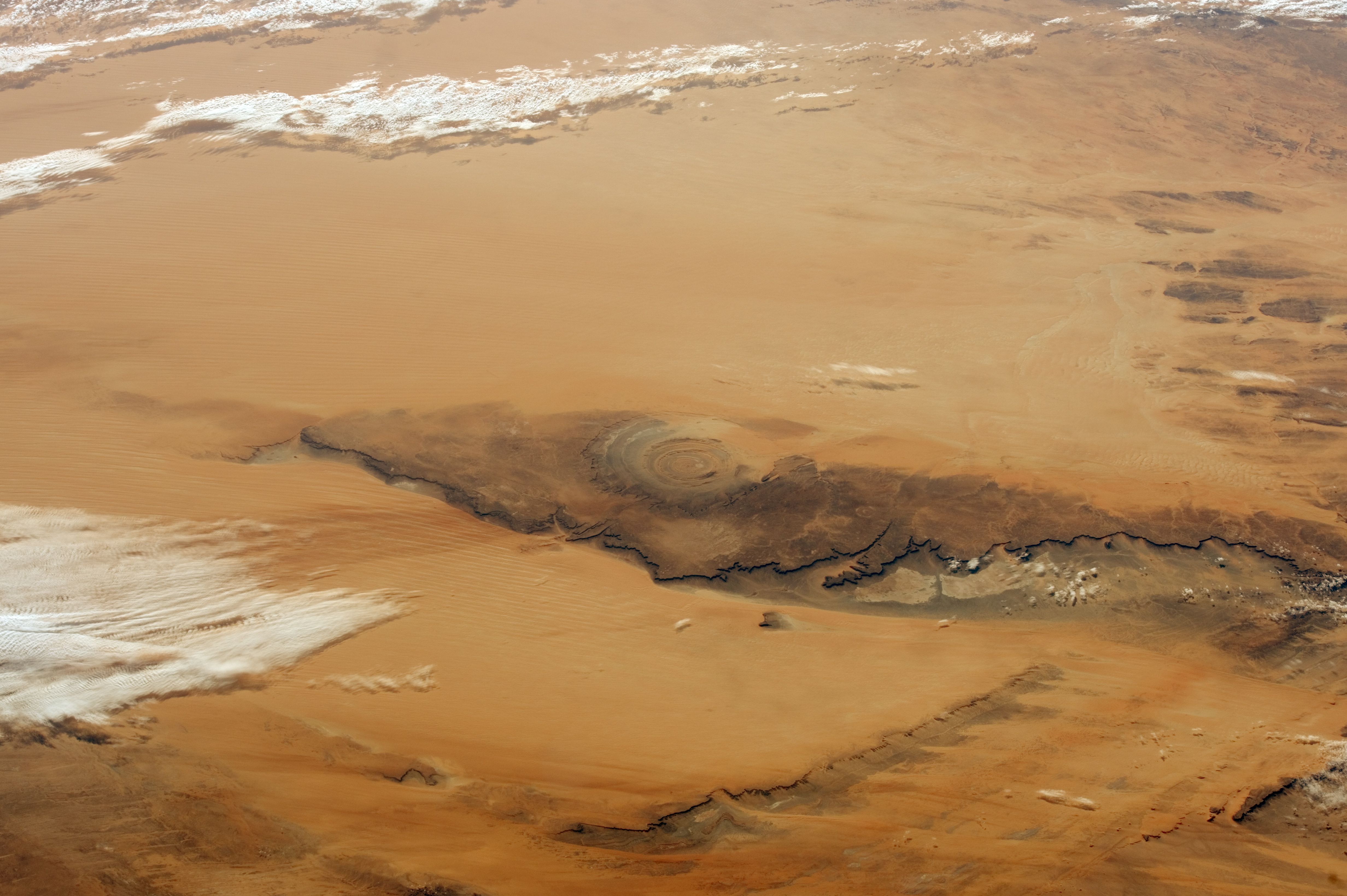 The Richat Structure, also known as the Eye of the Sahara and Guelb er Richat, is a prominent circular feature in the Sahara desert near Ouadane, west–central Mauritania.